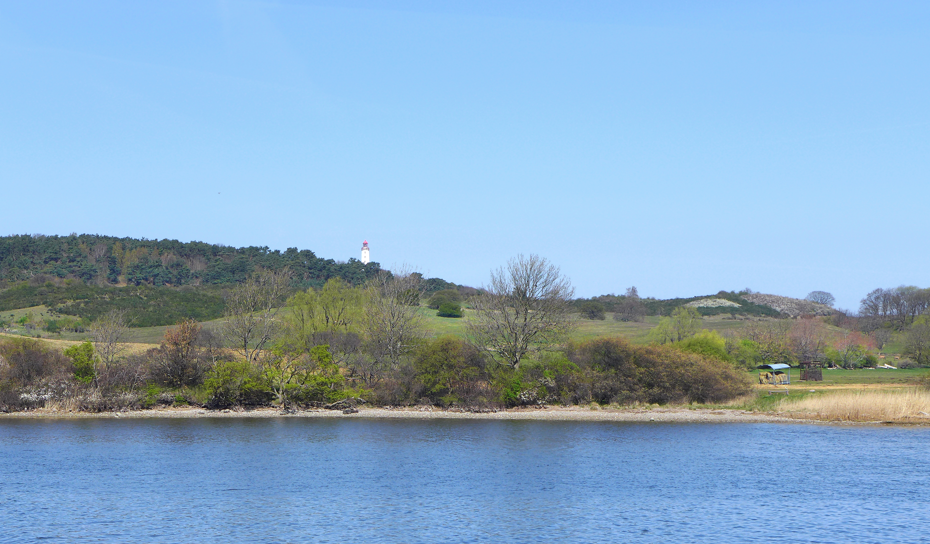 View to the "Schwedenhagener Ufer". Nature reserve "Dornbusch und Schwedenhagener Ufer", island Hiddensee, NSG N 294, Vorpommern-Rügen District, Mecklenburg-Vorpommern, Germany.